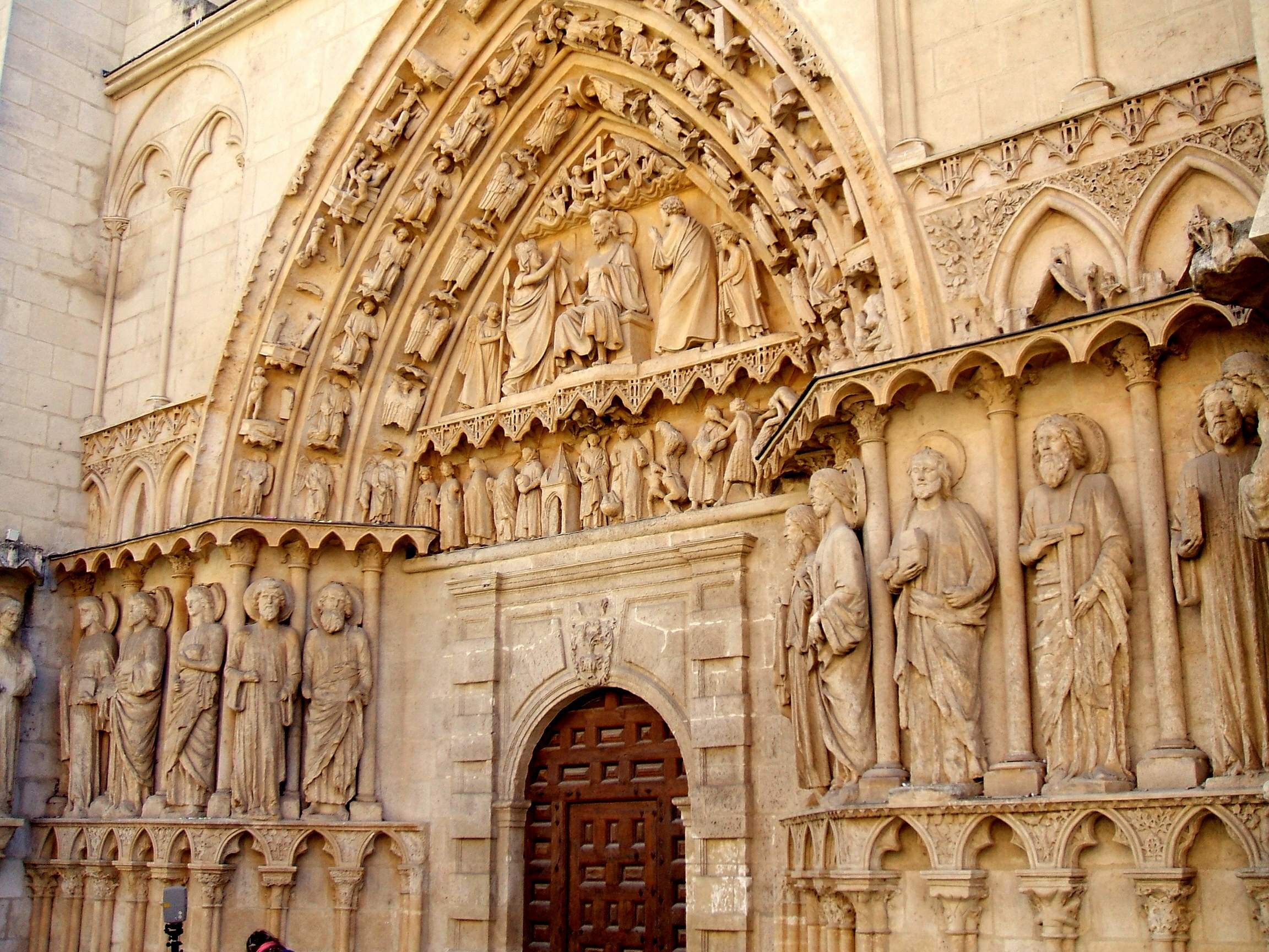 Puerta de la Coronería de la Catedral de Burgos (España)